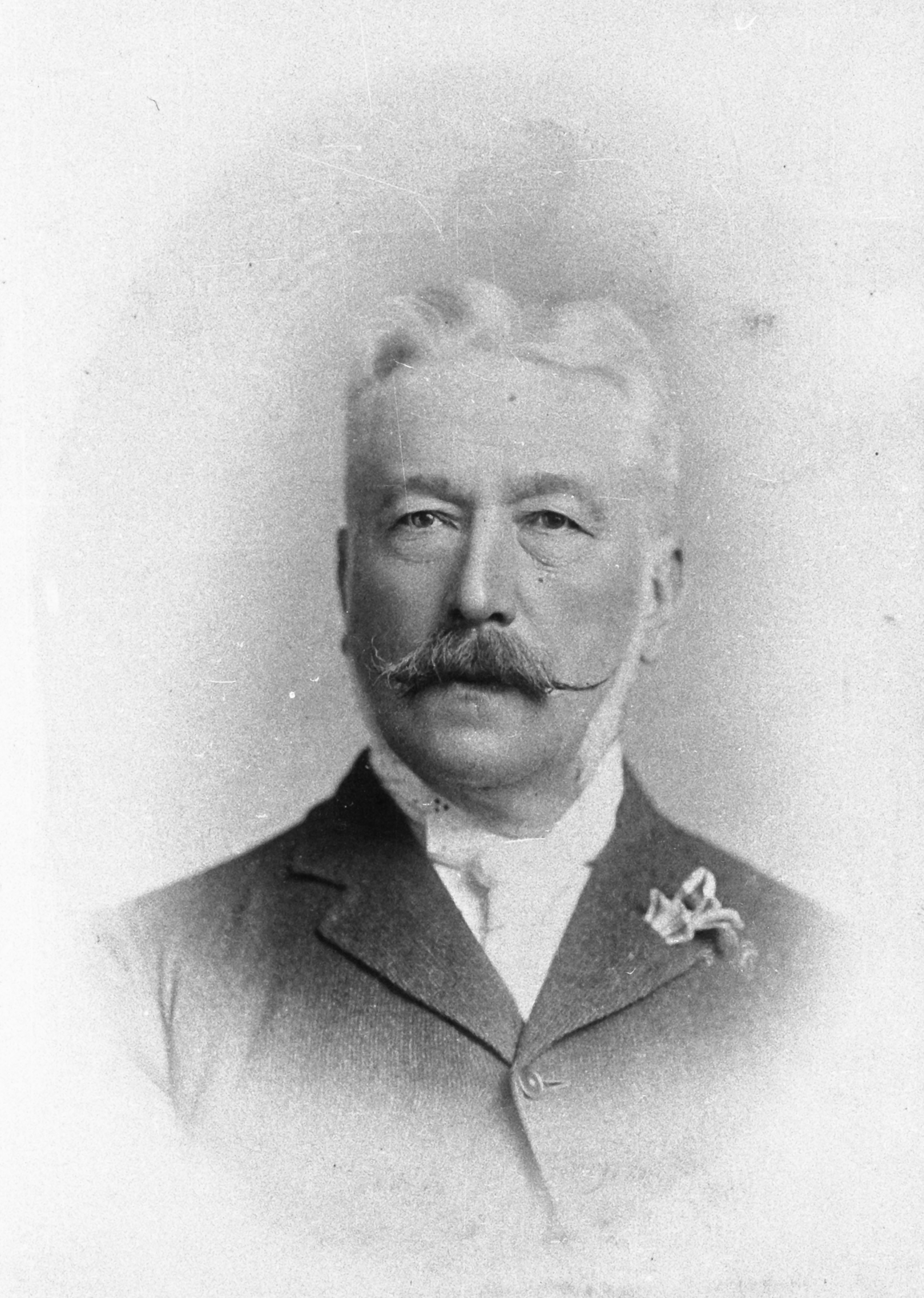 Head and shoulders portrait of Edward Cephas John Stevens, circa 1907. Photographer unidentified.